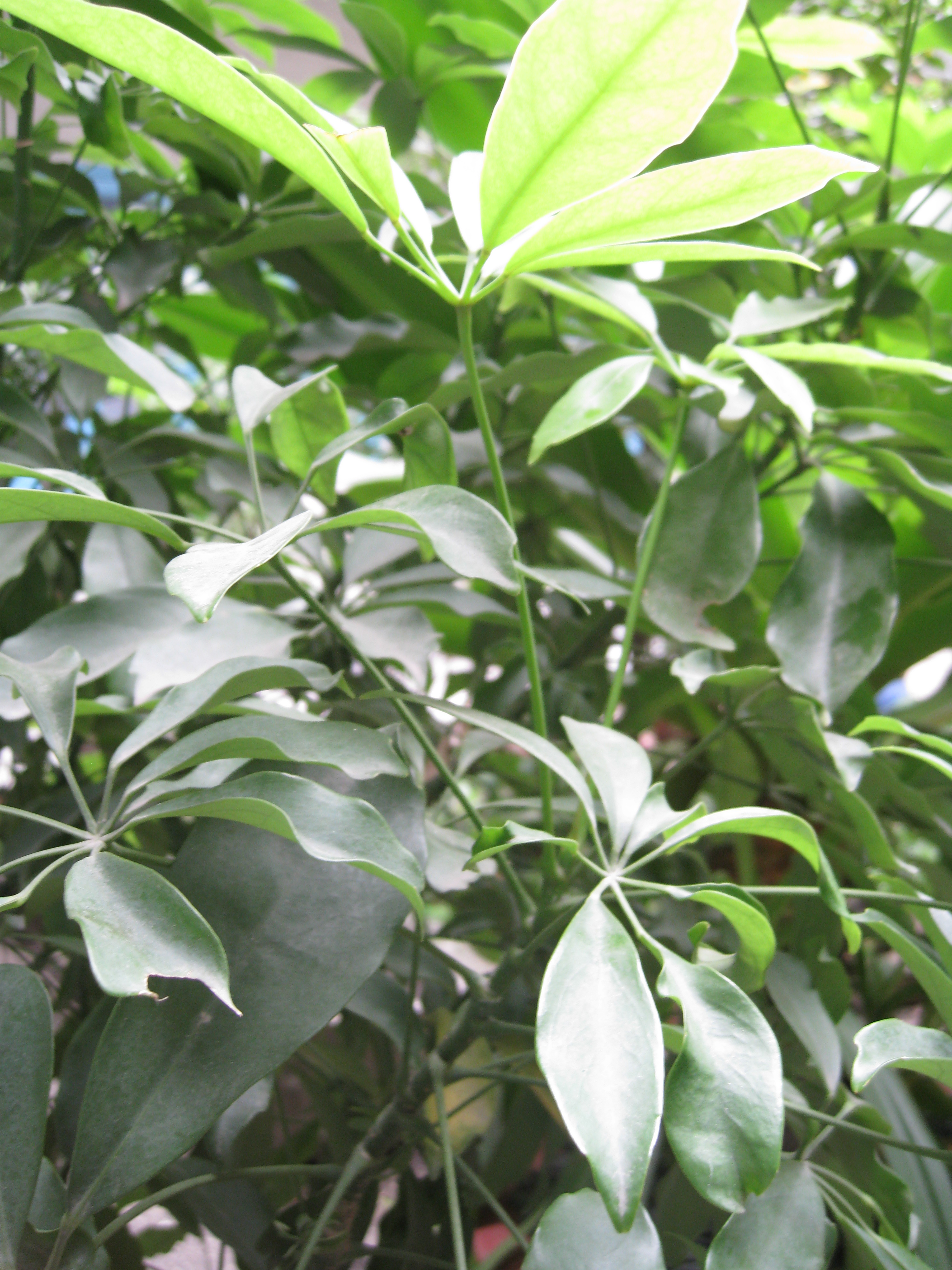 Schefflera octophylla.